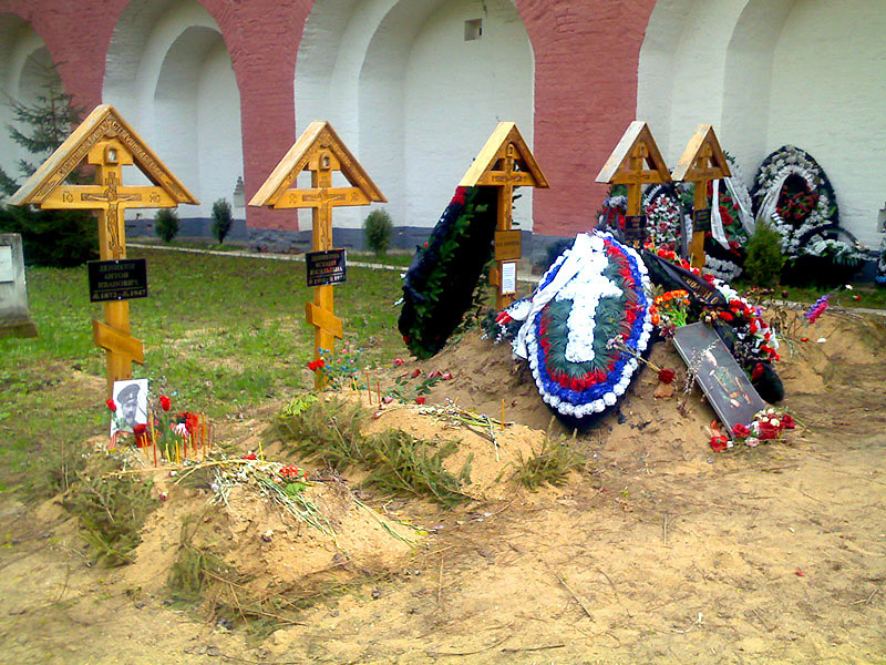 Donskoy monastery in Moscow